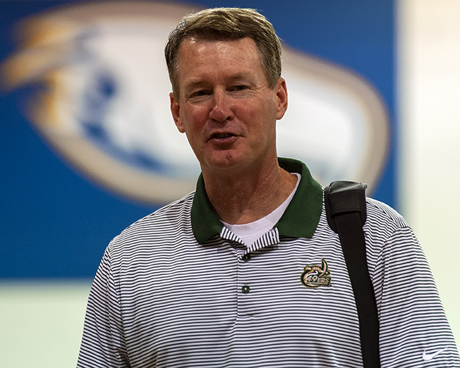 Photo of basketball player and coach Mark Price at a game at the University of British Columbia in Vancouver, Canada.